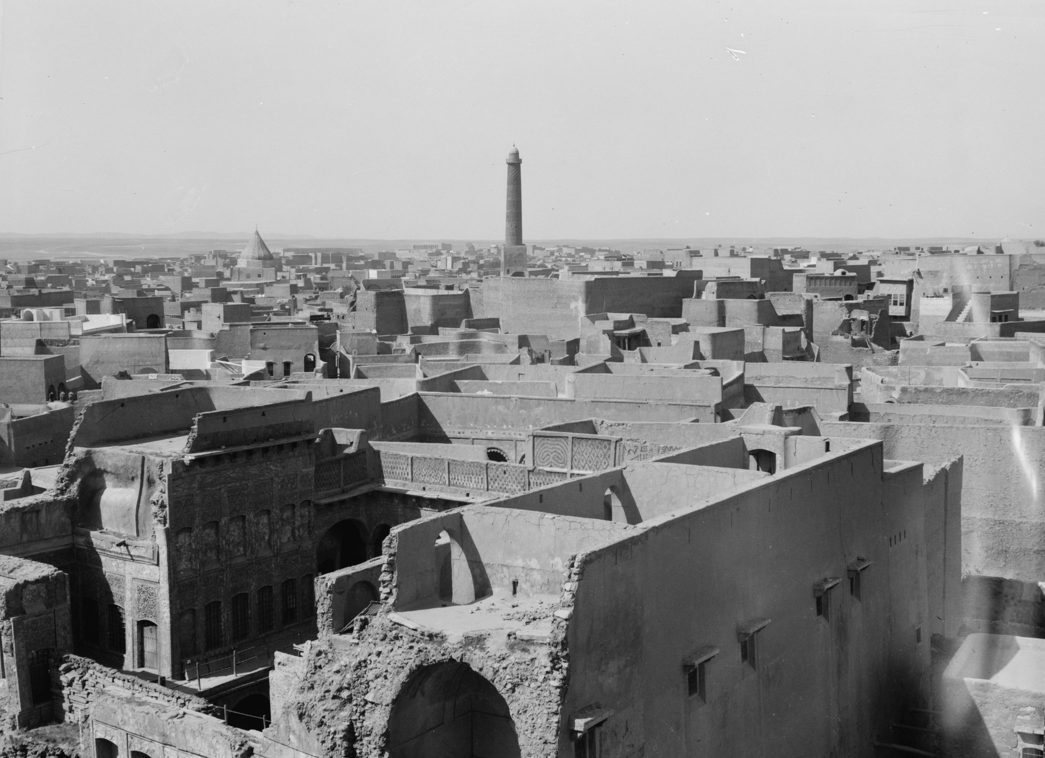 Iraq. Mosul. General view with tall minaret in center of picture.